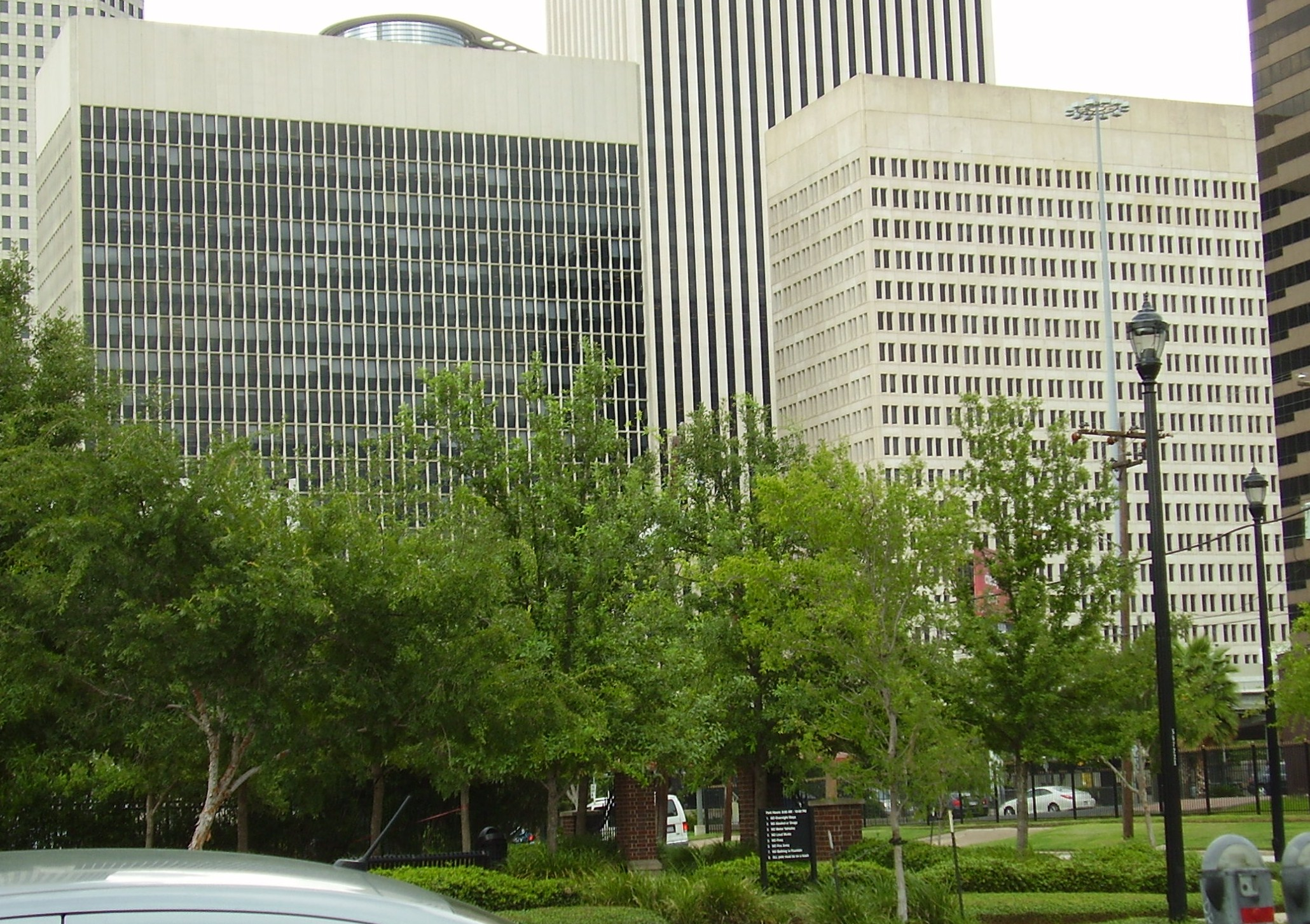 Cullen Center: Continental Center II (right) and 500 Jefferson (left) - Continental Center II has the administrative headquarters of the Houston Fire Department